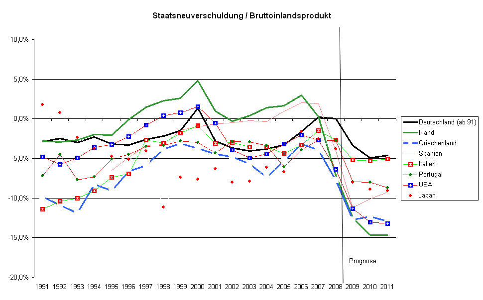 *Fiscal balance of general government, several states. Source of data: database AMECO of European Commission